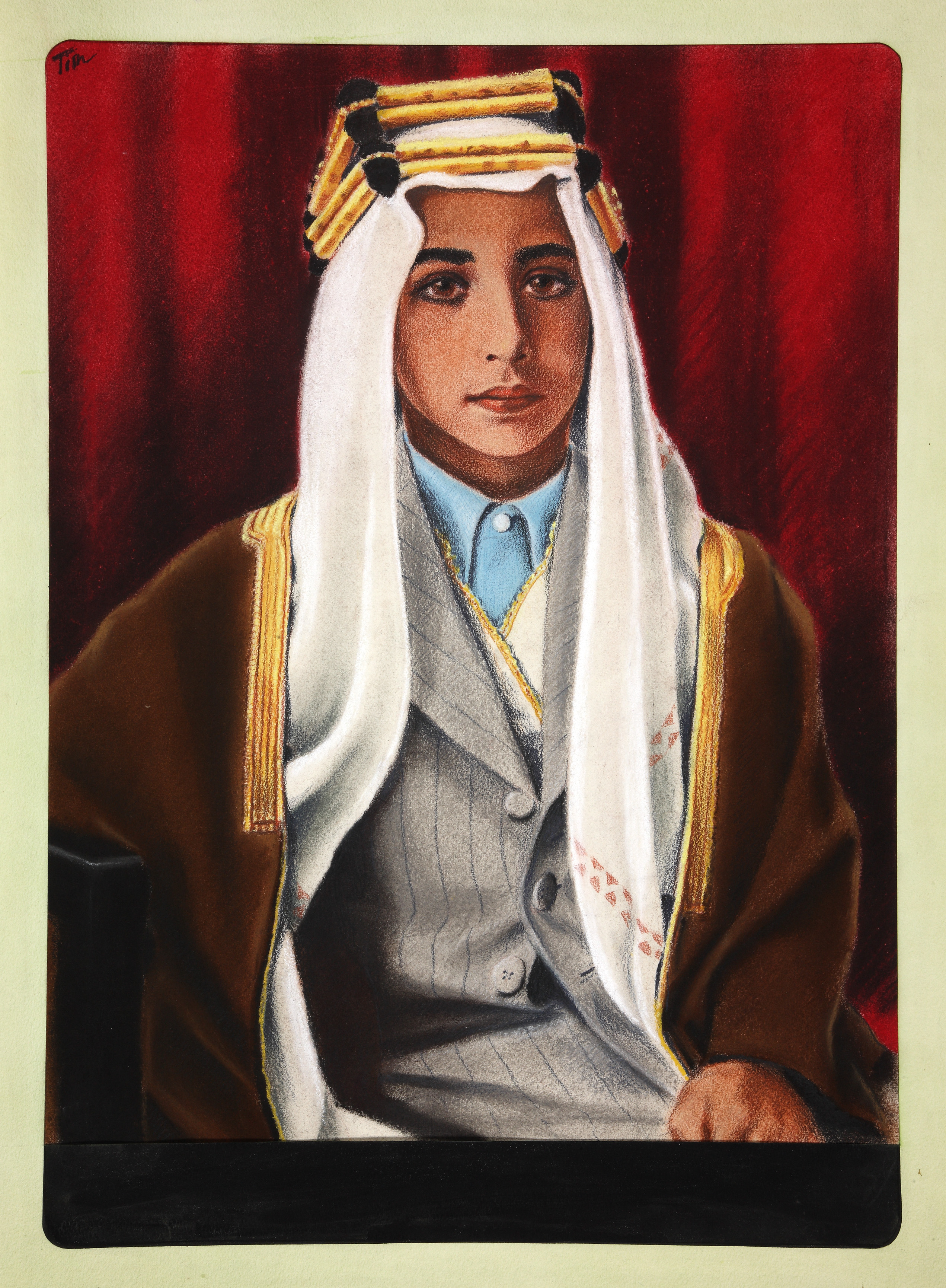 King Feisal of Iraq Depicted person: Feisal II of Iraq